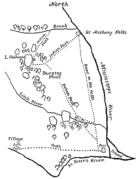 Early Map of the Minneapolis area showing Indian paths, Fort Snelling, St. Anthony Falls, Lake Calhoun, Minnehaha Creek, and two Indian villages (circa 1820-1860). Original map at the Minnesota Historical Society.